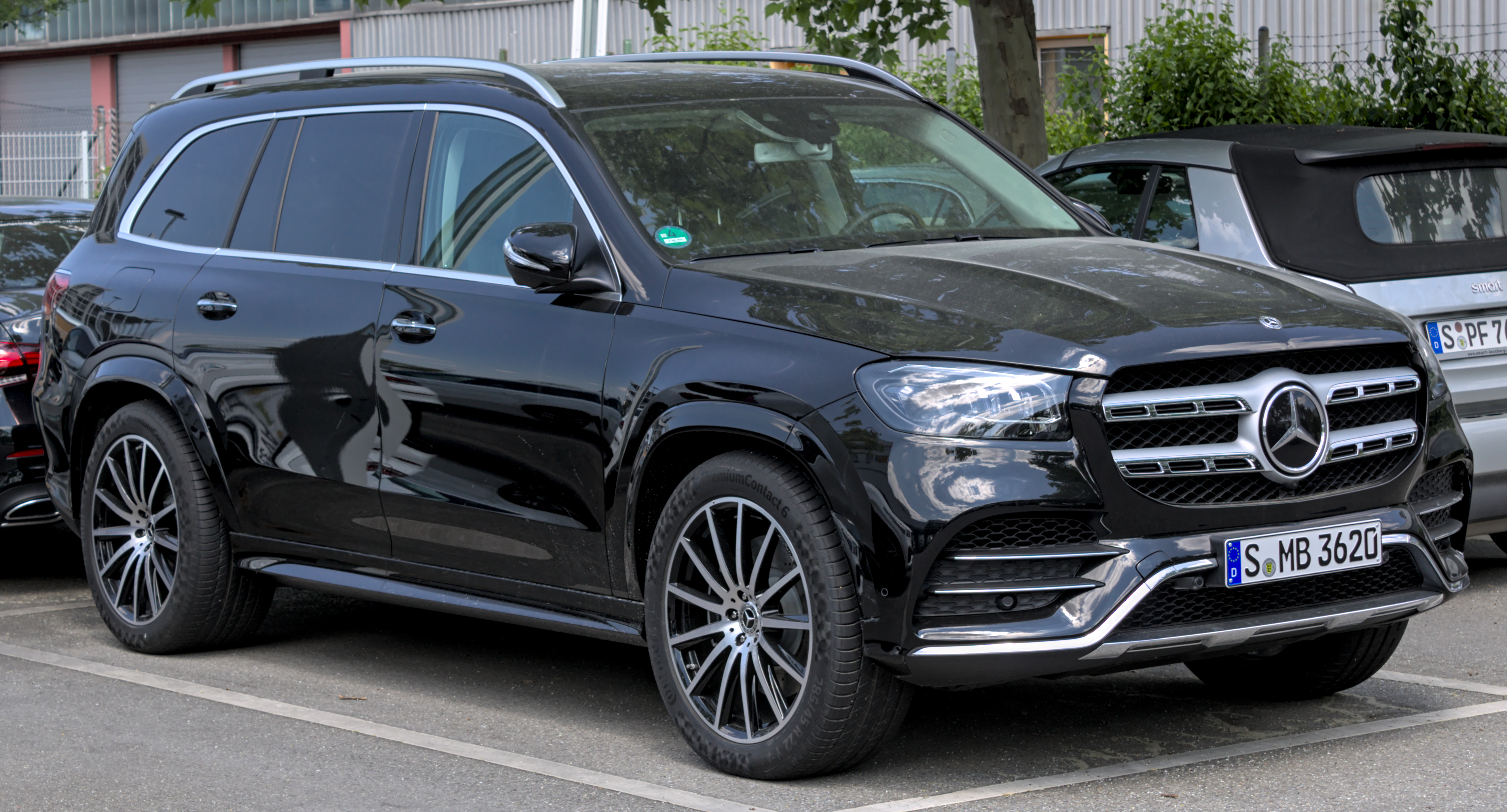 Mercedes-Benz_X167 in Böblingen